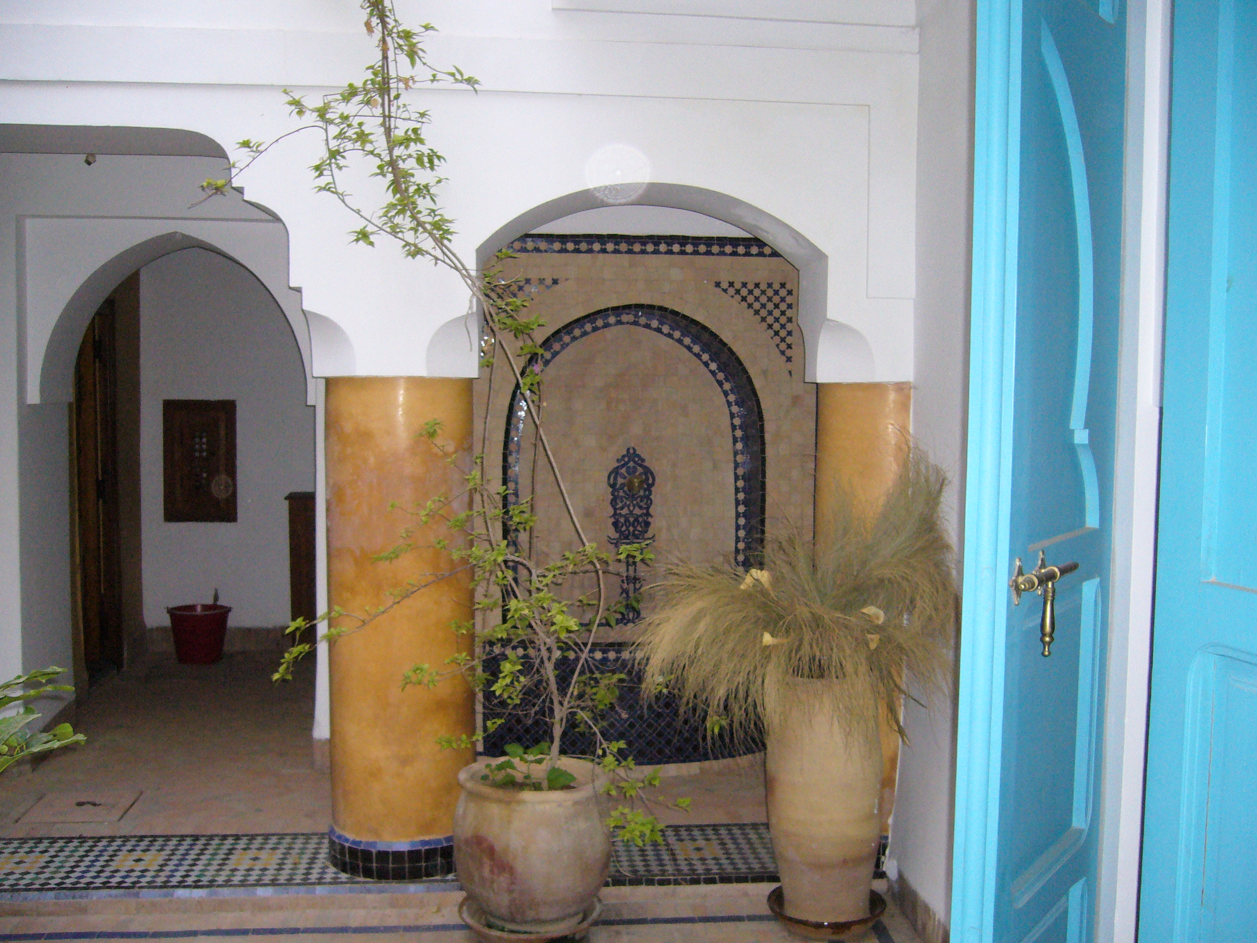 A sample of Riad after renovation in Marrakech